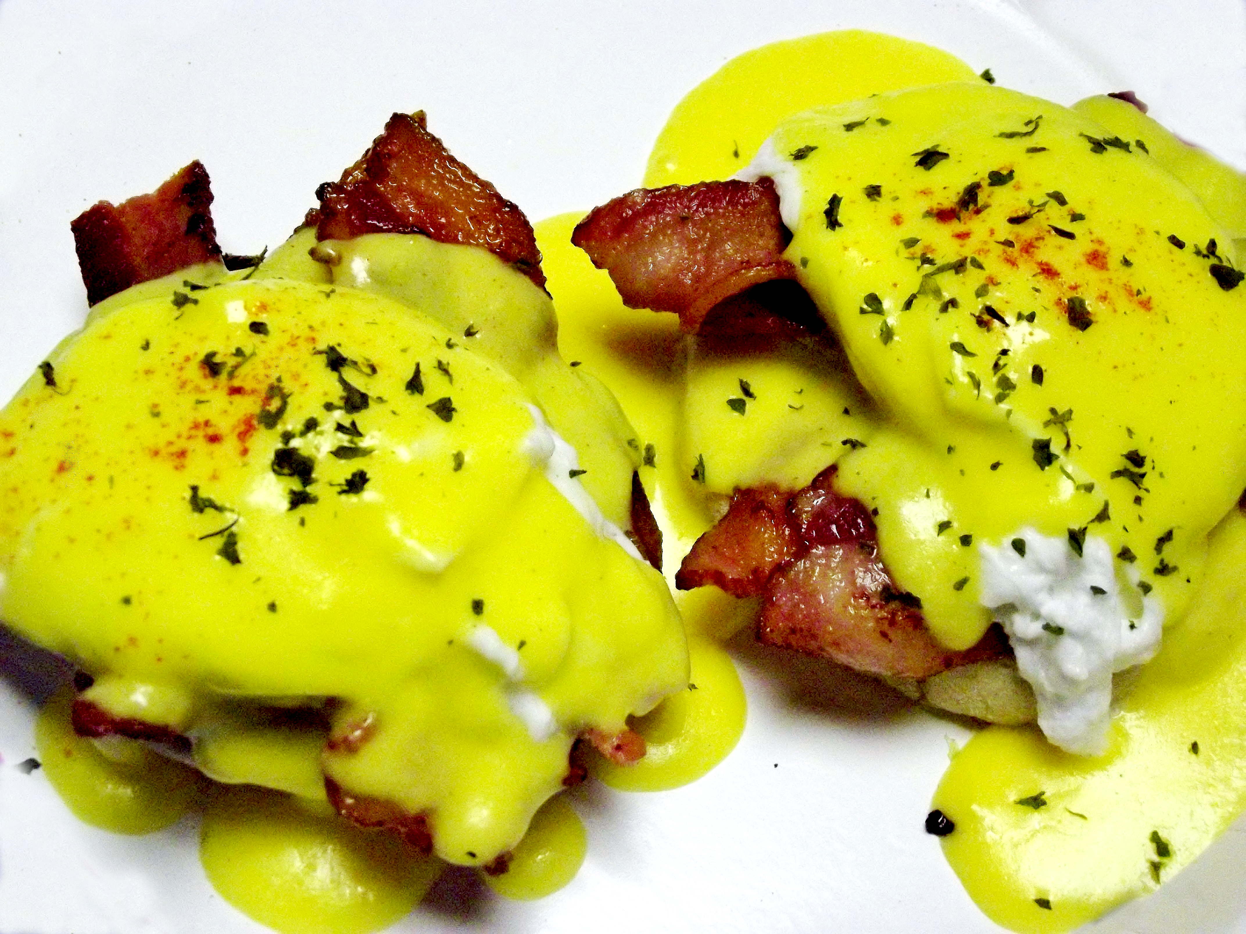 Eggs Benedict with bacon.